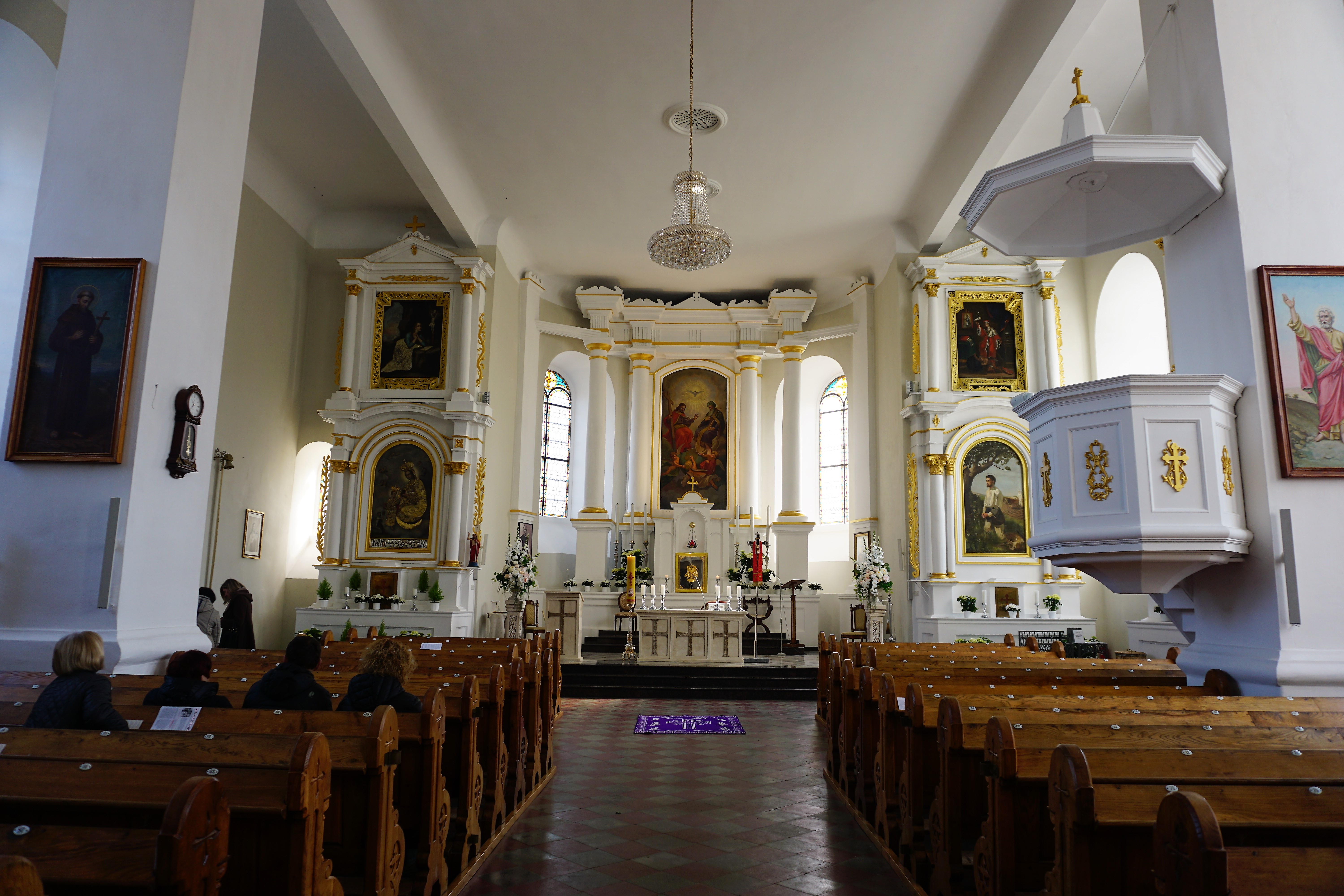 Interior of the Holy Trinity church in Skuodas